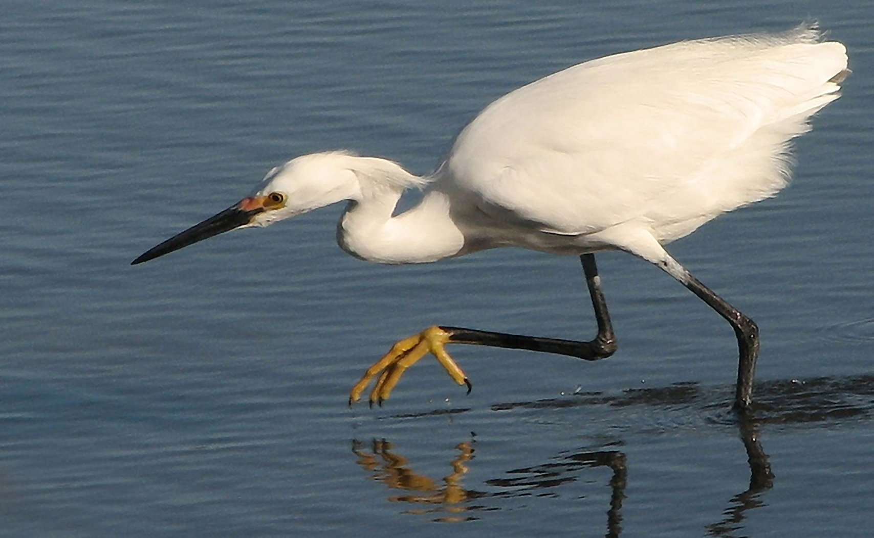 A Snowy Egret at Berkeley Aquatic Park on the eastern San Francisco Bay. In west Berkeley, California, USA.